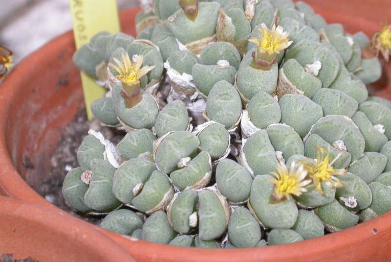 Personnal collection